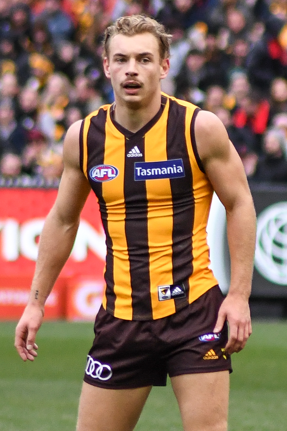 James Worpel of Hawthorn during the 2018 AFL round 20 match between Hawthorn and Essendon at the Melbourne Cricket Ground on Saturday, 4 August 2018 in Melbourne, Victoria.